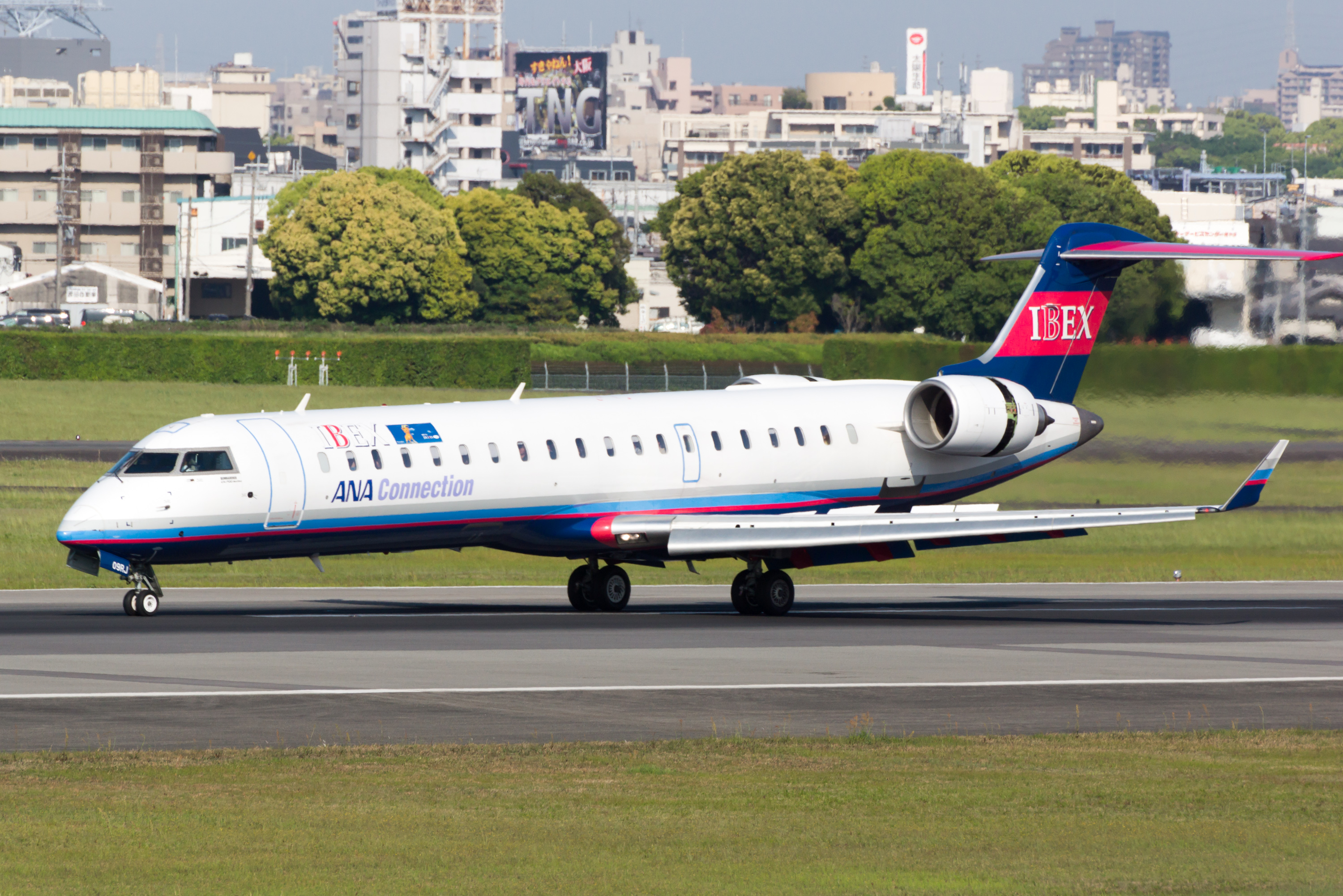 IBEX Airlines / IBEXエアラインズ Bombardier CL-600-2C10 Regional Jet CRJ-702 JA09RJ FW54, Arrived from Sendai Osaka Itami Int'l Airport